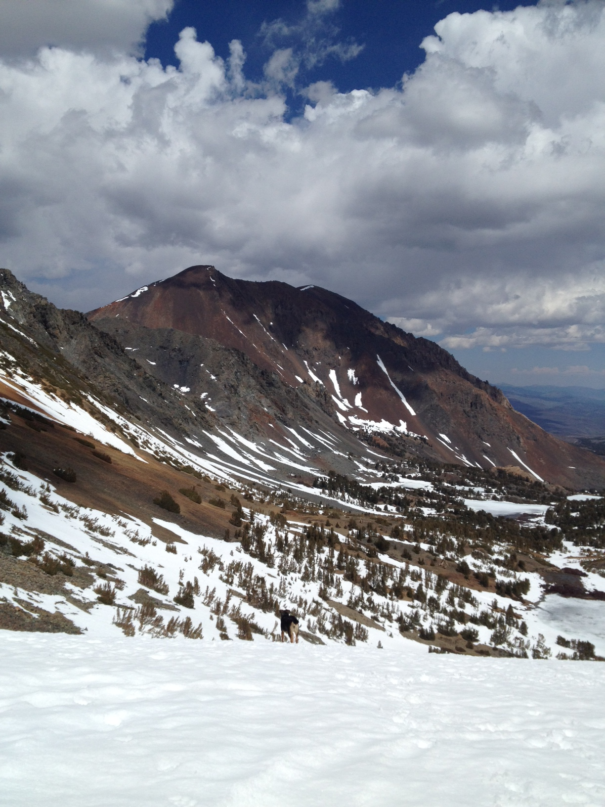 Dunderberg Peak shot from the South in the Sierra Nevada, CA, USA